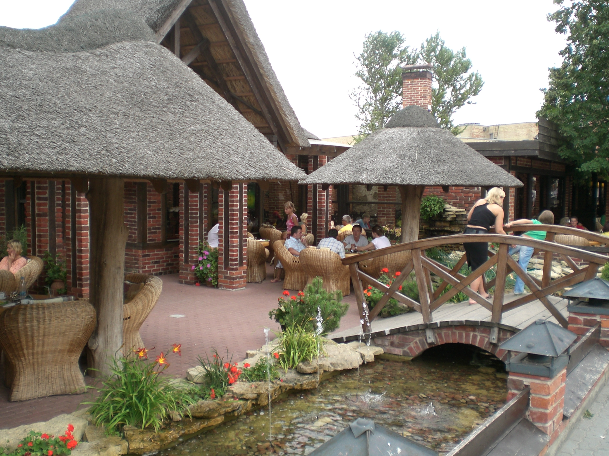 Pittoresque restaurant in the Baltic Sea resort Šventoji, 10 north of Palanga in Lithuania